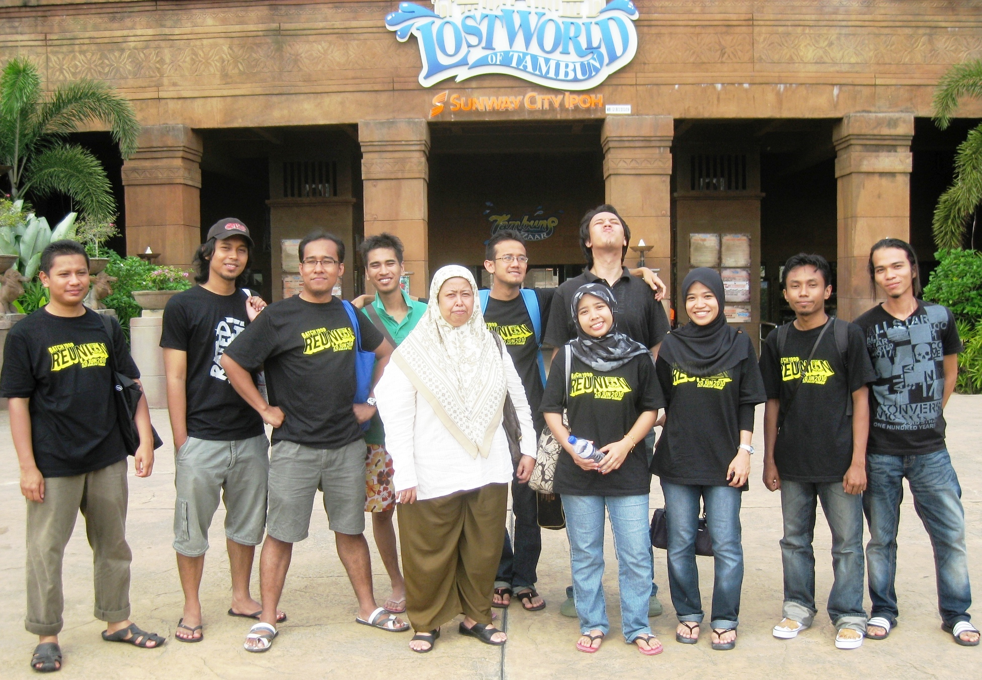 this photo was taken using Canon Digital IXUS 80 IS owned by Ahmad Fadhil bin Che Sham.